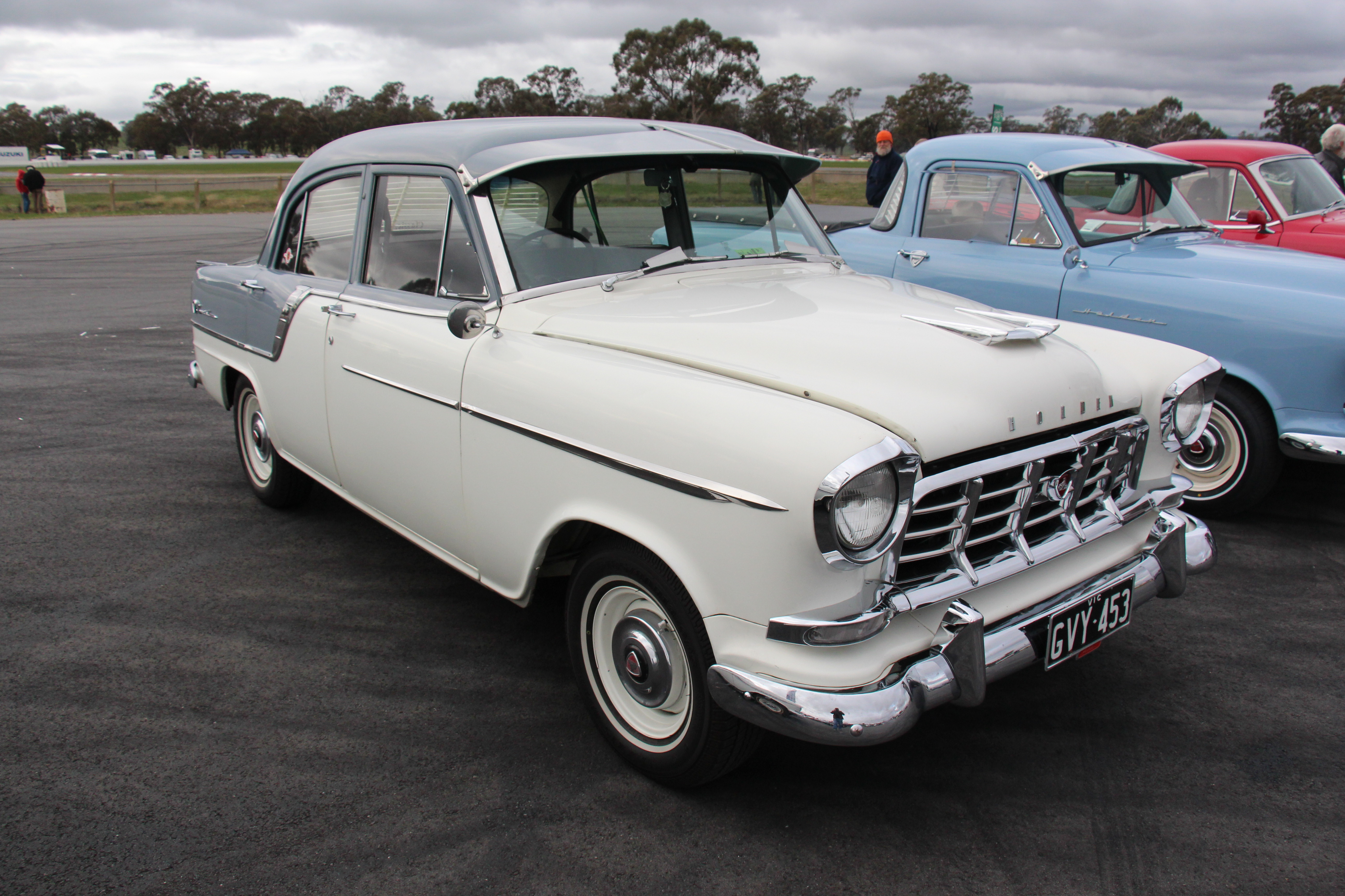 The FC Holden was built from July 1958-Jan 1960. The FC was a facelifted and improved version of the FE with more prominent chromework in the grille, improved trim and interior. Styling on the FE and FC Holden coming from the 1955 American Chevrolet and the 1956 German Opel Kapitan Small improvements were made to the FCs engine, suspension and brakes, but power was much the same as the FE at 72hp. The upmarket 'Special' again got lots of chrome, better interior and two tone paint option. This time the Special got chrome fins on the rear guards and a prominent down-sweep on the side body flash in the zone of the rear door Engine; 138 cu in grey 6 cyl Sedan; Standard, Business or Special Wagon; Standard or Special also Utility and Panel Van